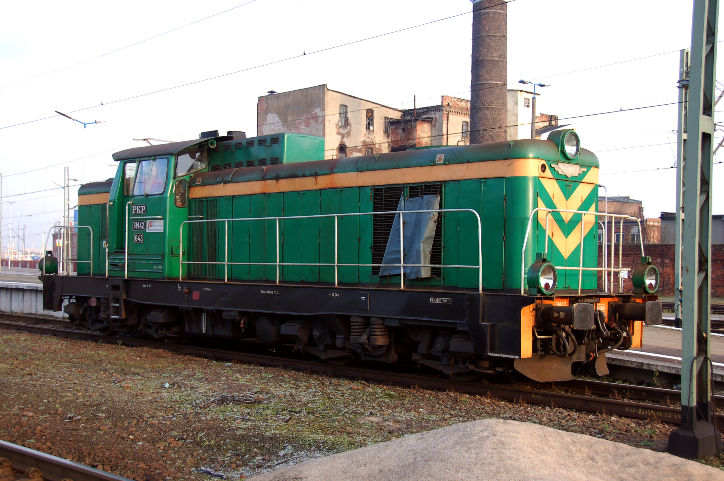 Stettin central train station